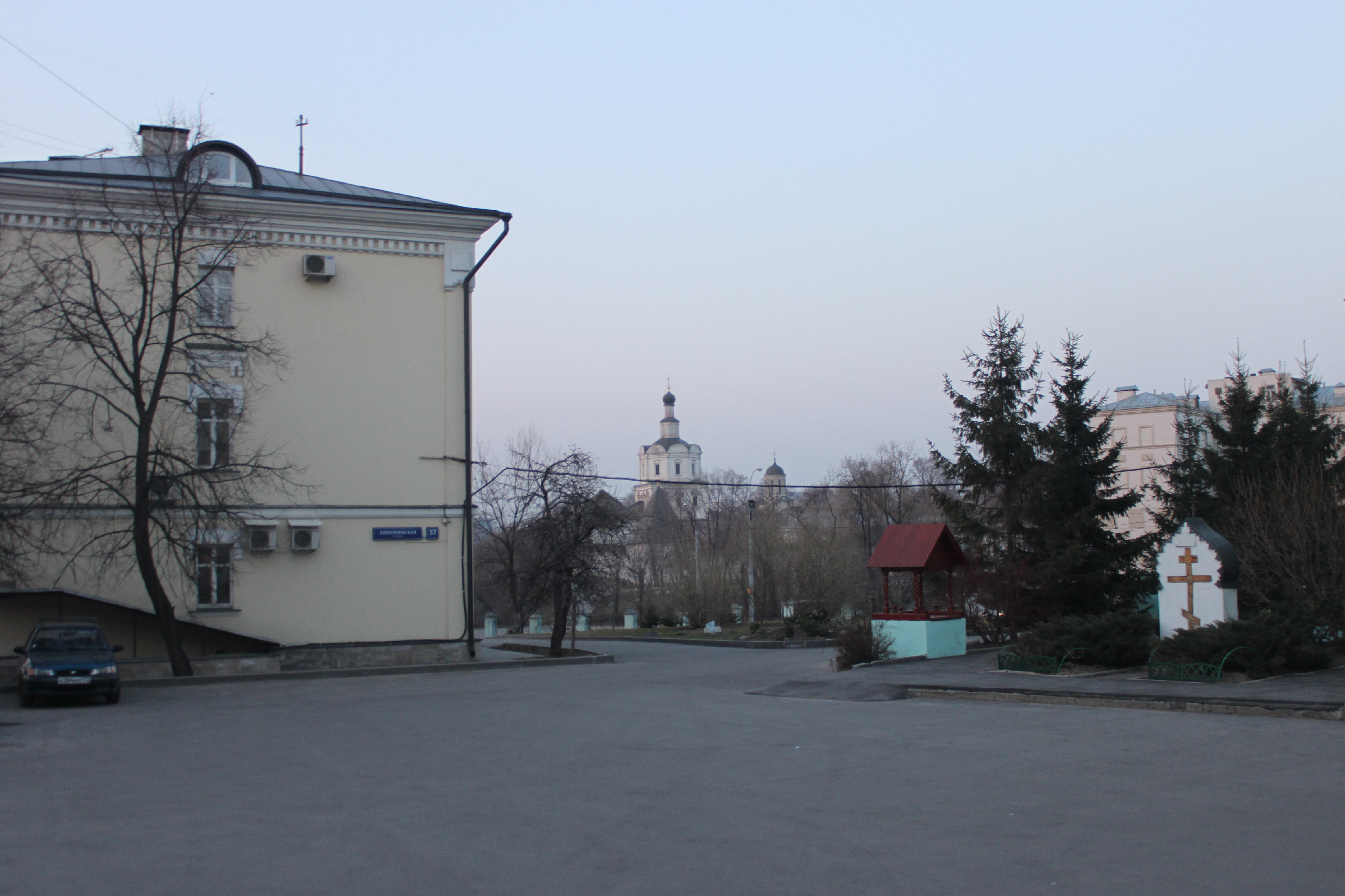 Nikoloyamskaya street.